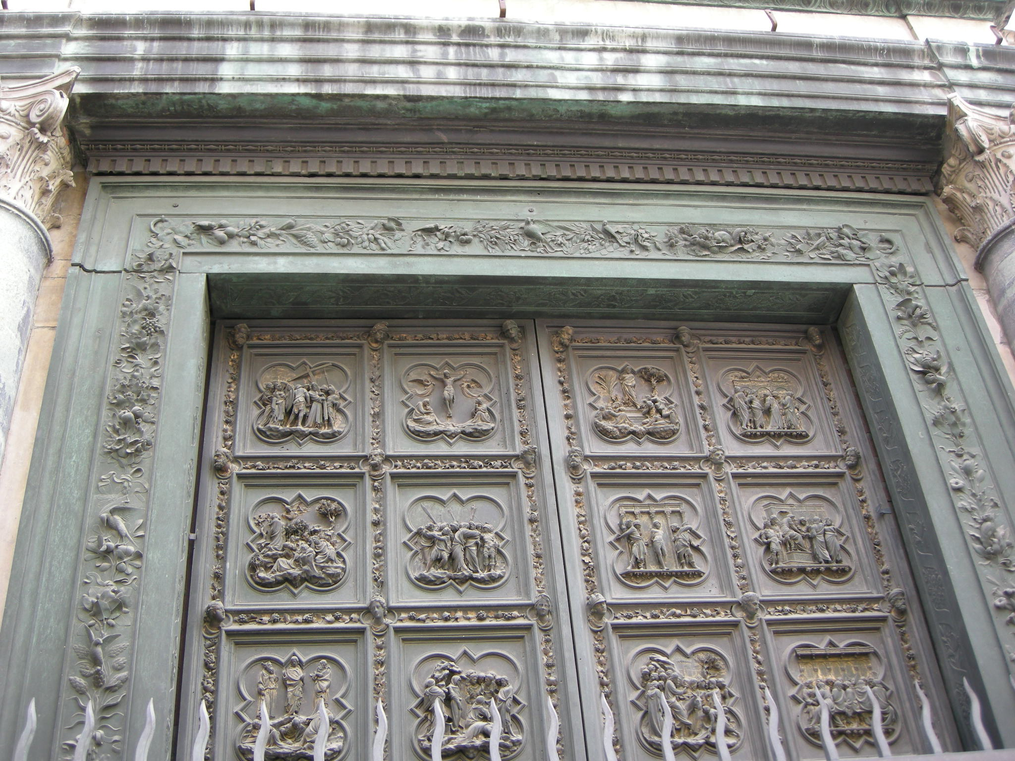 North Doors of the Florence Baptistry, upper